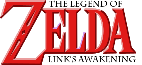 Logotype of The Legend of Zelda: Link's Awakening.